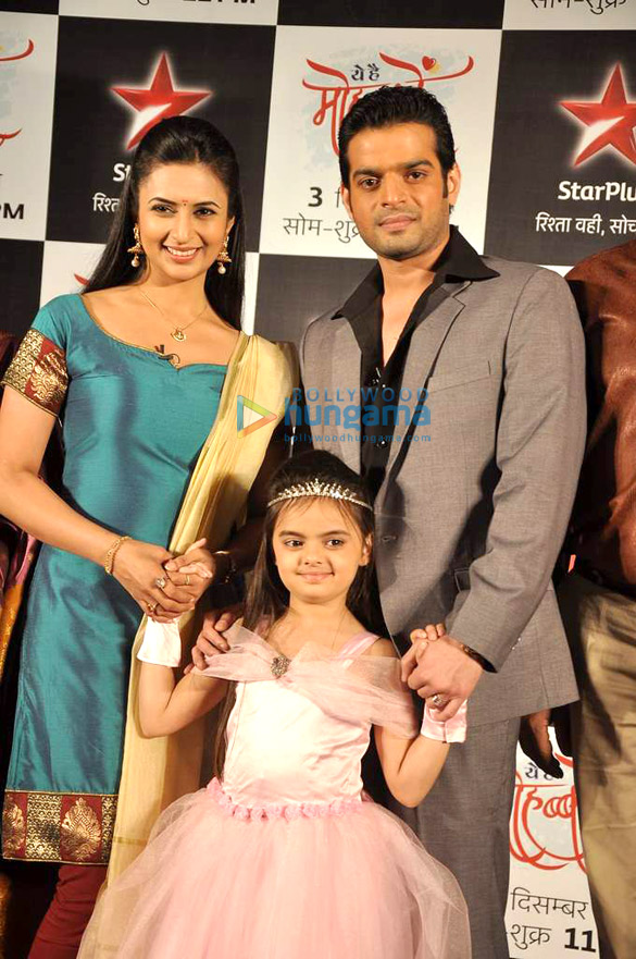 Tripathi and Patel at the launch of Star Plus' serial 'Yeh Hai Mohabbatein'